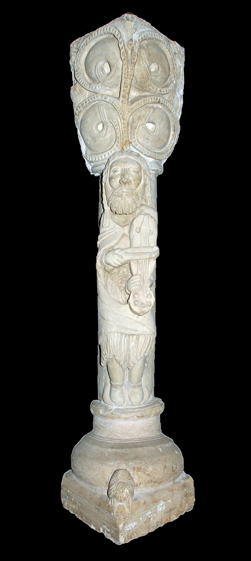 Statue-column in the Church of Saint Andrew in Revilla de Collazos (Palencia, Castile and León).